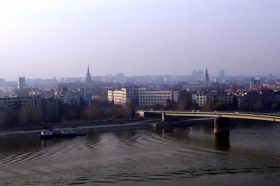 View of city centre of Novi Sad from Petrovaradin fortress